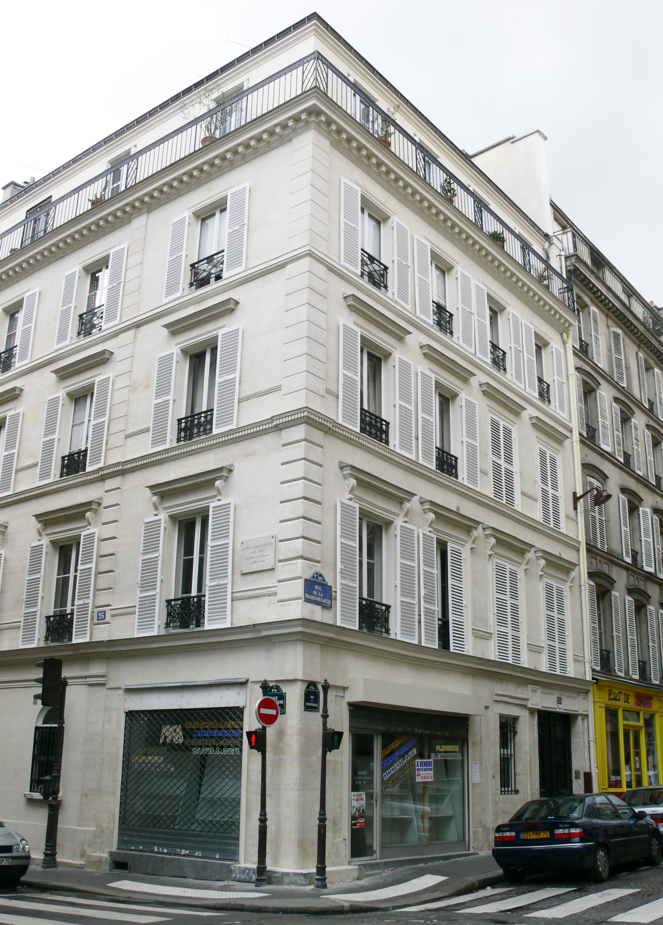 House where Pierre-Auguste Renoir lived from 1897 to 1902, rue de la Rochefoucauld, 9th arr., Paris, France